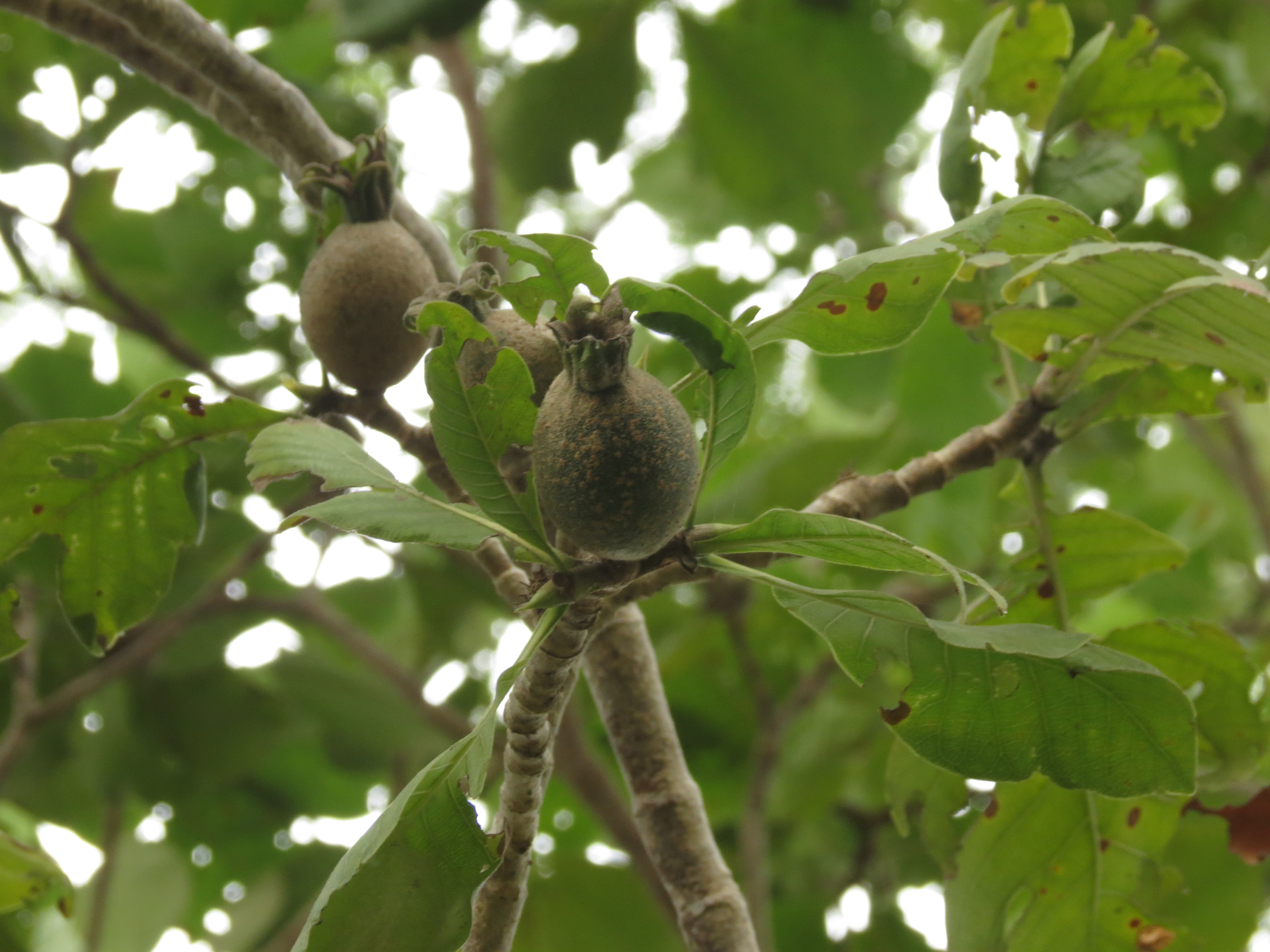 Gardenia latifolia seen in Turahalli Bangalore